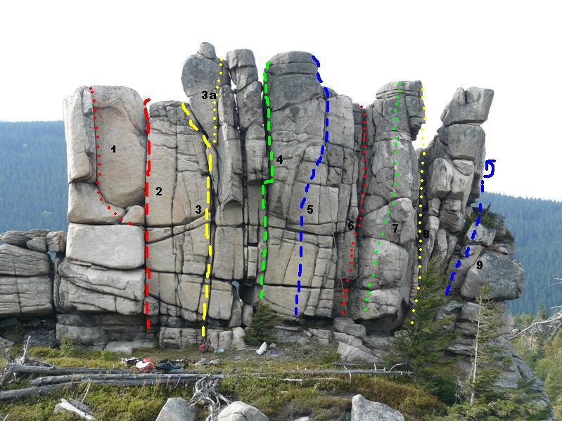 Climbing routes and boulders, Ptasie skały